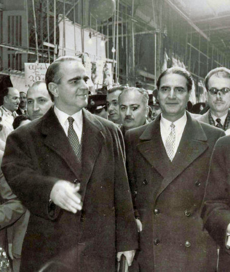 Konstantinos Karamanlis and Stefanos Natsinas visiting Central Market of Athens.